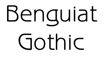 Name of the Benguiat Gothic font.